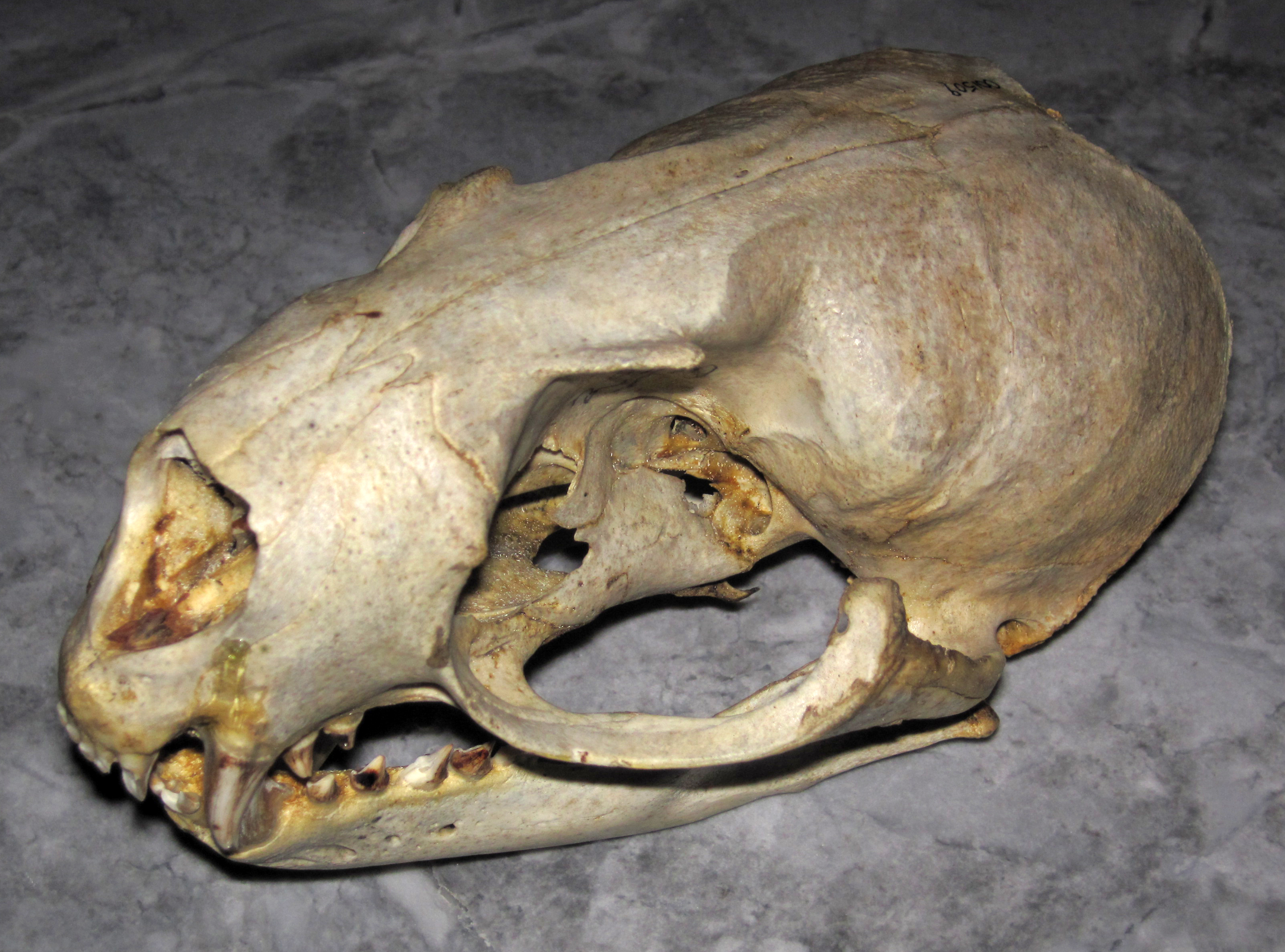 Callorhinus ursinus (Linnaeus, 1758) - northern fur seal skull (oblique anterolateral view). (Ohio State University Museum of Zoology) Mammals are the dominant group of terrestrial vertebrates on Earth today. The group is defined based on a combination of features: endothermic (= warm-blooded), air-breathing, body hair, mother's milk, four-chambered heart, large brain-to-body mass ratio, two teeth generations, differentiated dentition, and a single lower jawbone. Almost all modern mammals have live birth - exceptions are the duck-billed platypus and the echidna, both of which lay eggs. Mammals first appear in the Triassic fossil record - they evolved from the therapsids (mammal-like reptiles). Mammals were mostly small and a minor component of terrestrial ecosystems during the Mesozoic. After the Cretaceous-Tertiary mass extinction at 65 million years ago, the mammals underwent a significant adaptive radiation - most modern mammal groups first appeared during this radiation in the early Cenozoic (Paleocene and Eocene). Three groups of mammals exist in the Holocene - placentals, marsupials, and monotremes. Other groups, now extinct, were present during the Mesozoic. Northern fur seals are native to the western coasts of America and Canada, the coasts of Alaska, the Aleutian Islands, and the eastern coasts of northeastern Asia. Classification: Animalia, Chordata, Vertebrata, Mammalia, Carnivora, Pinnipedia, Otariidae See info. at